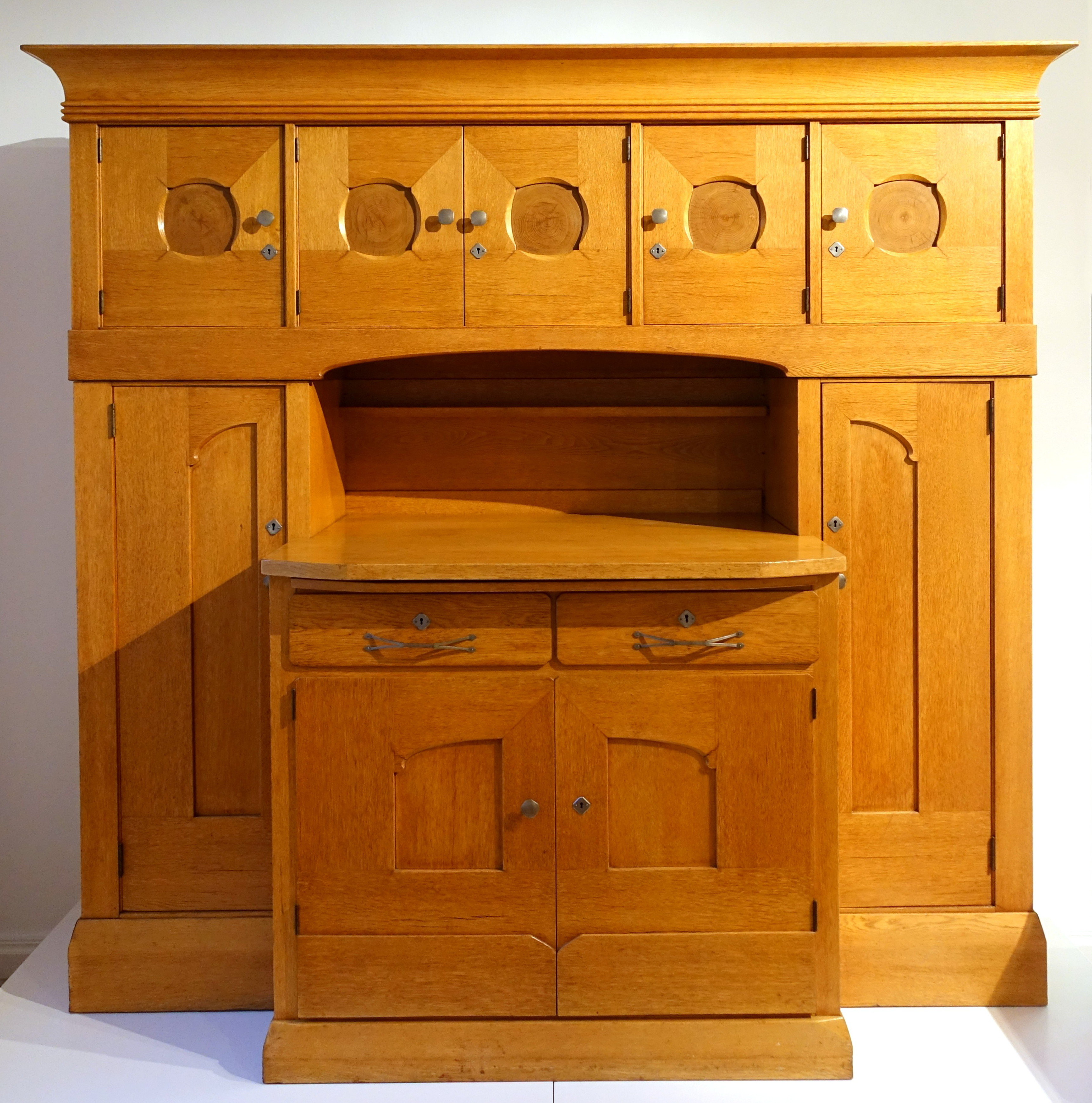 Exhibit in the Bröhan Museum, Berlin, Germany. This work is in the public domain because the artist died more than 70 years ago.